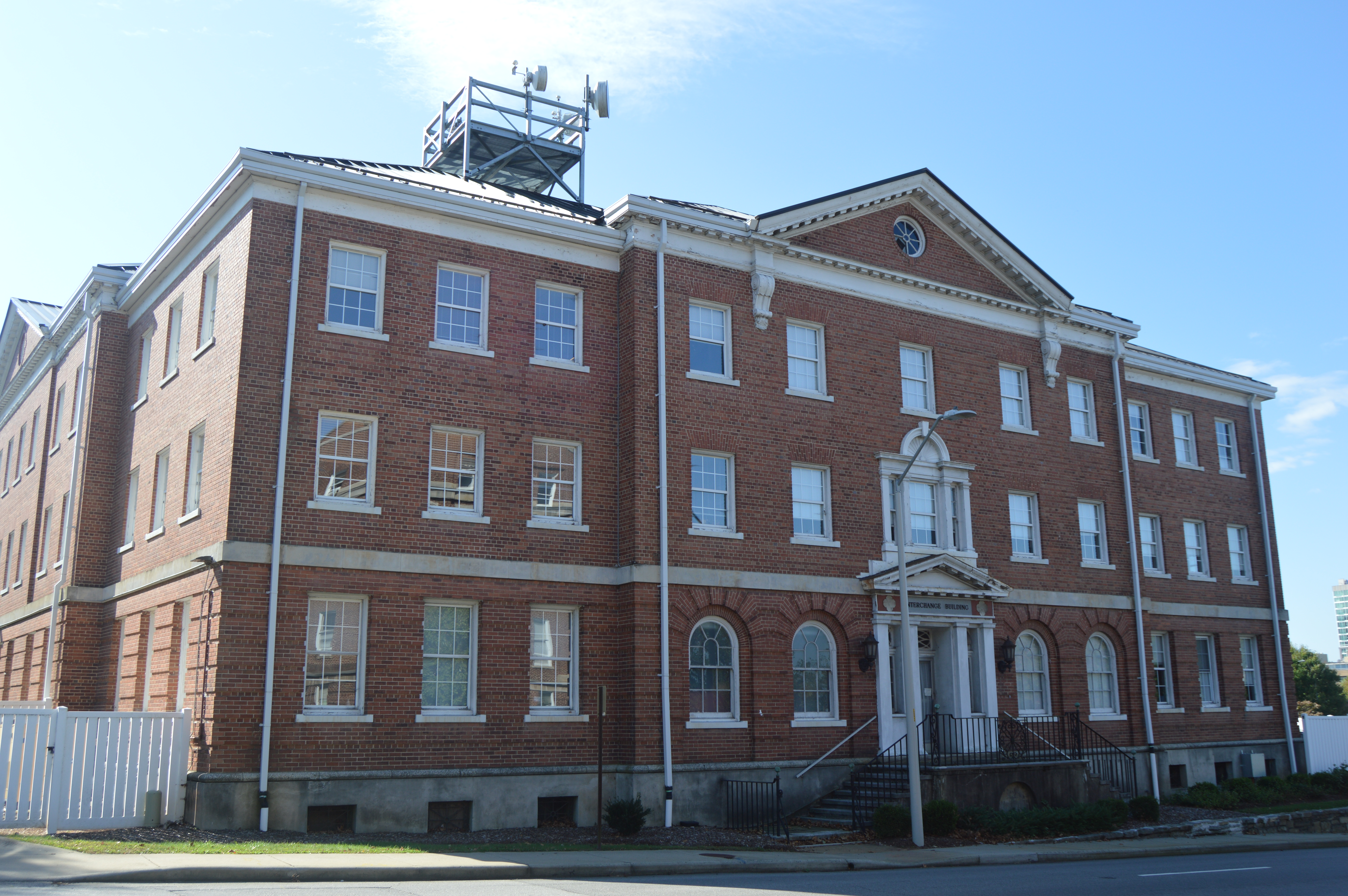 Front of the E. D. Latta Nurses' Residence, located at 159 Woodfin Street in Asheville, North Carolina, United States. Built in 1929, it is listed on the National Register of Historic Places.